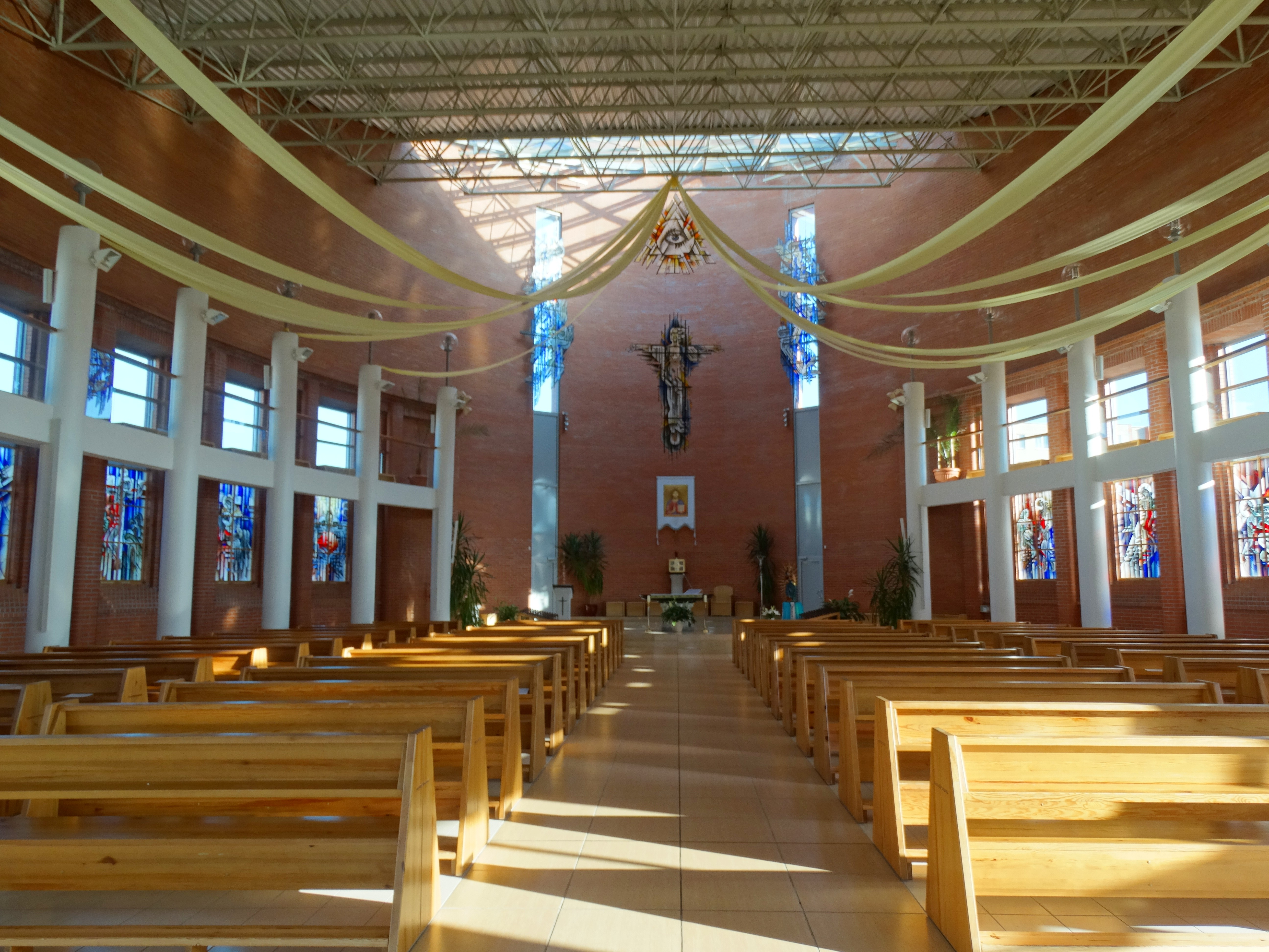 Church of the Providence of God, Utena, Lithuania